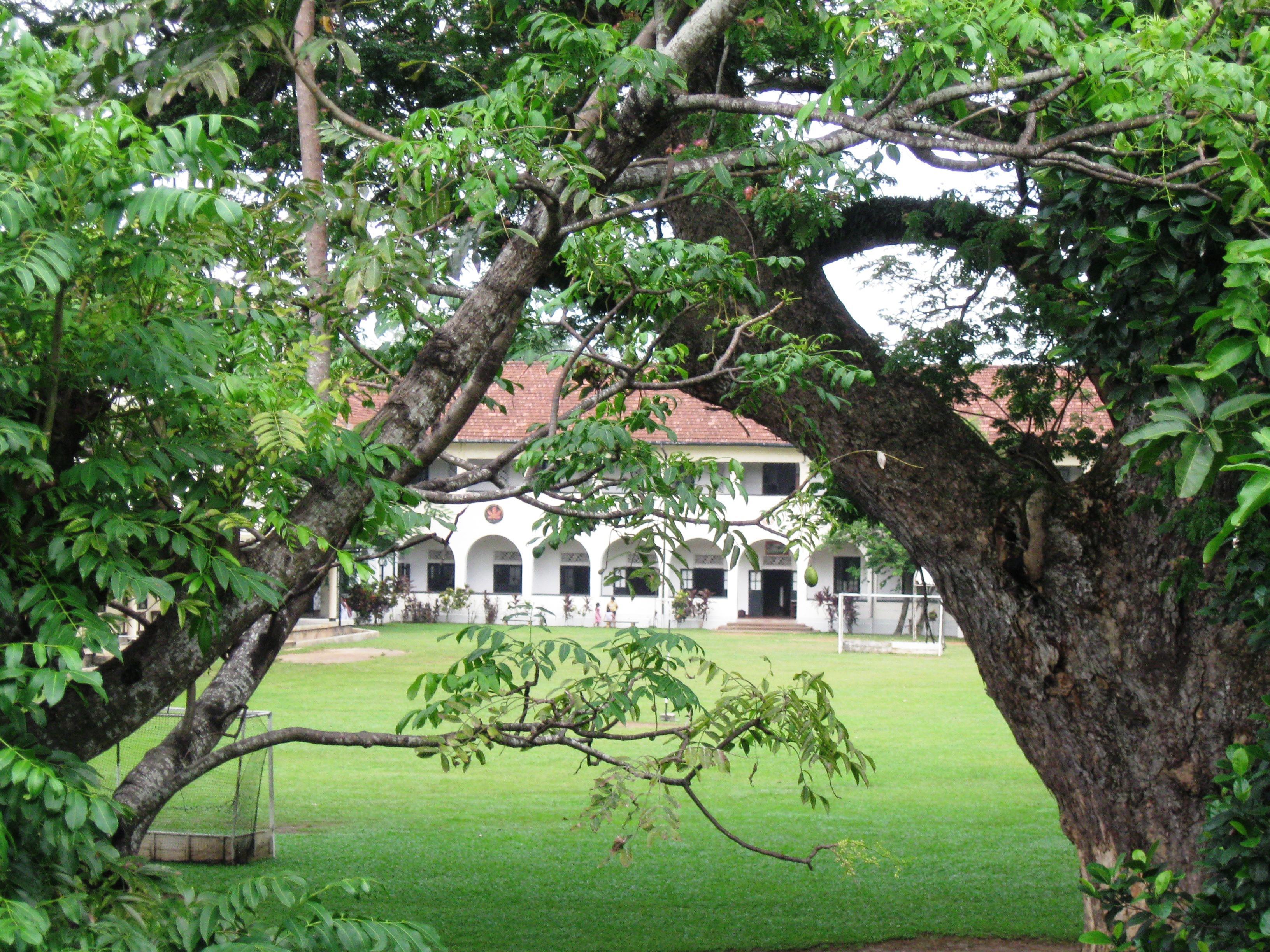 Photograph of C.M.S. Ladies’ College grounds